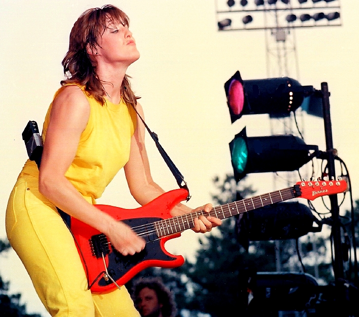 Katrina Leskanich with Katrina and the Waves taken at Six Flags Great Adventure - Jackson, NJ.